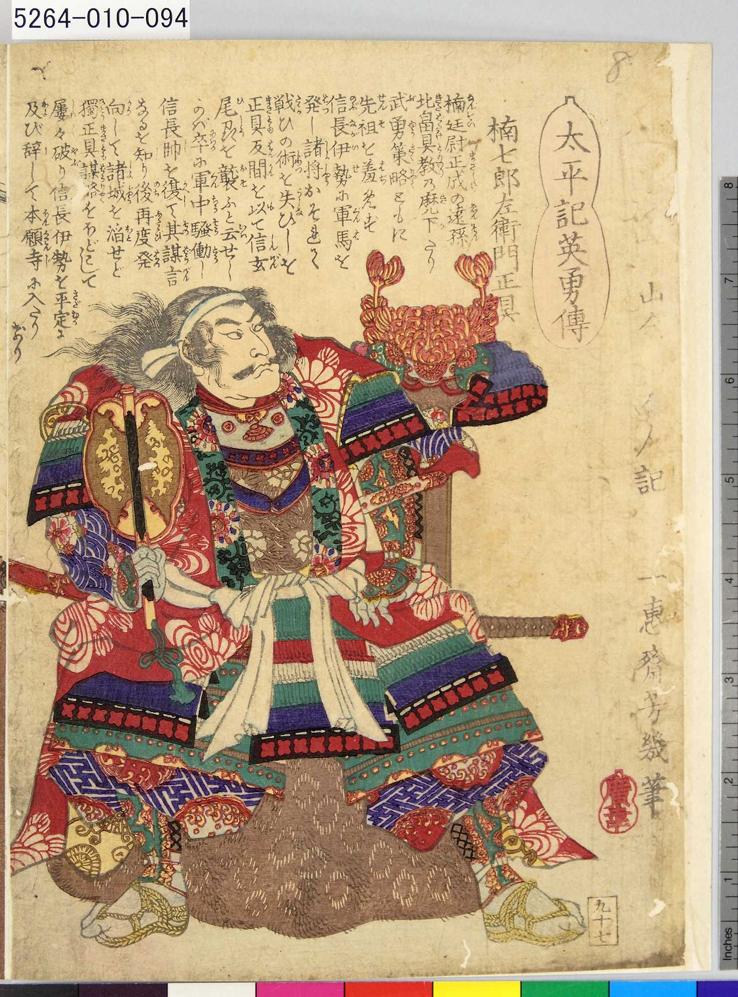 Kusunoki Shichirōzaemon Masatomo, from Taiheiki Eiyūden